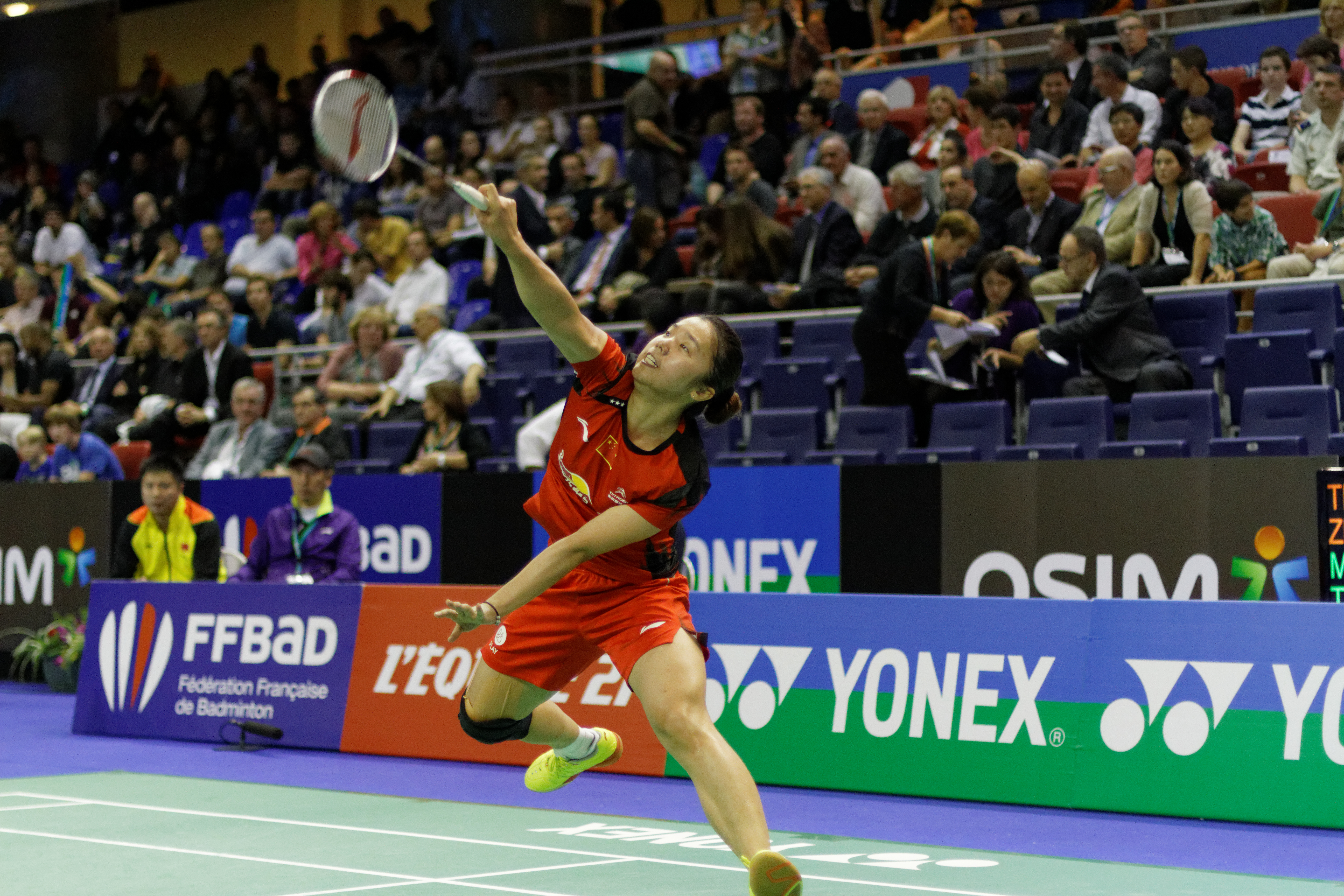 2013 French open. Women's doubles quarterfinal. Tian Qing and Zhao Yunlei vs Misaki Matsutomo and Ayaka Takahashi.